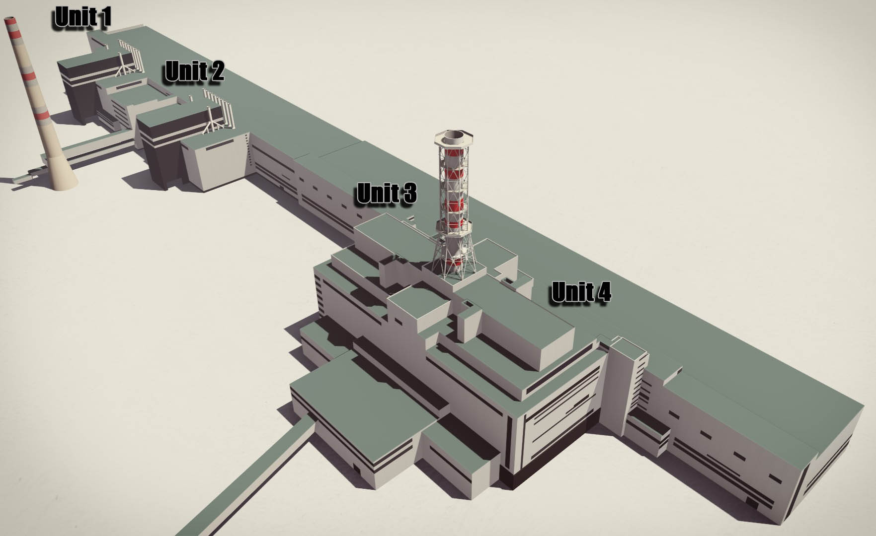 This a rendered computer generated view of what the Chernobyl nuclear power station would have looked like before the accident in 1986.